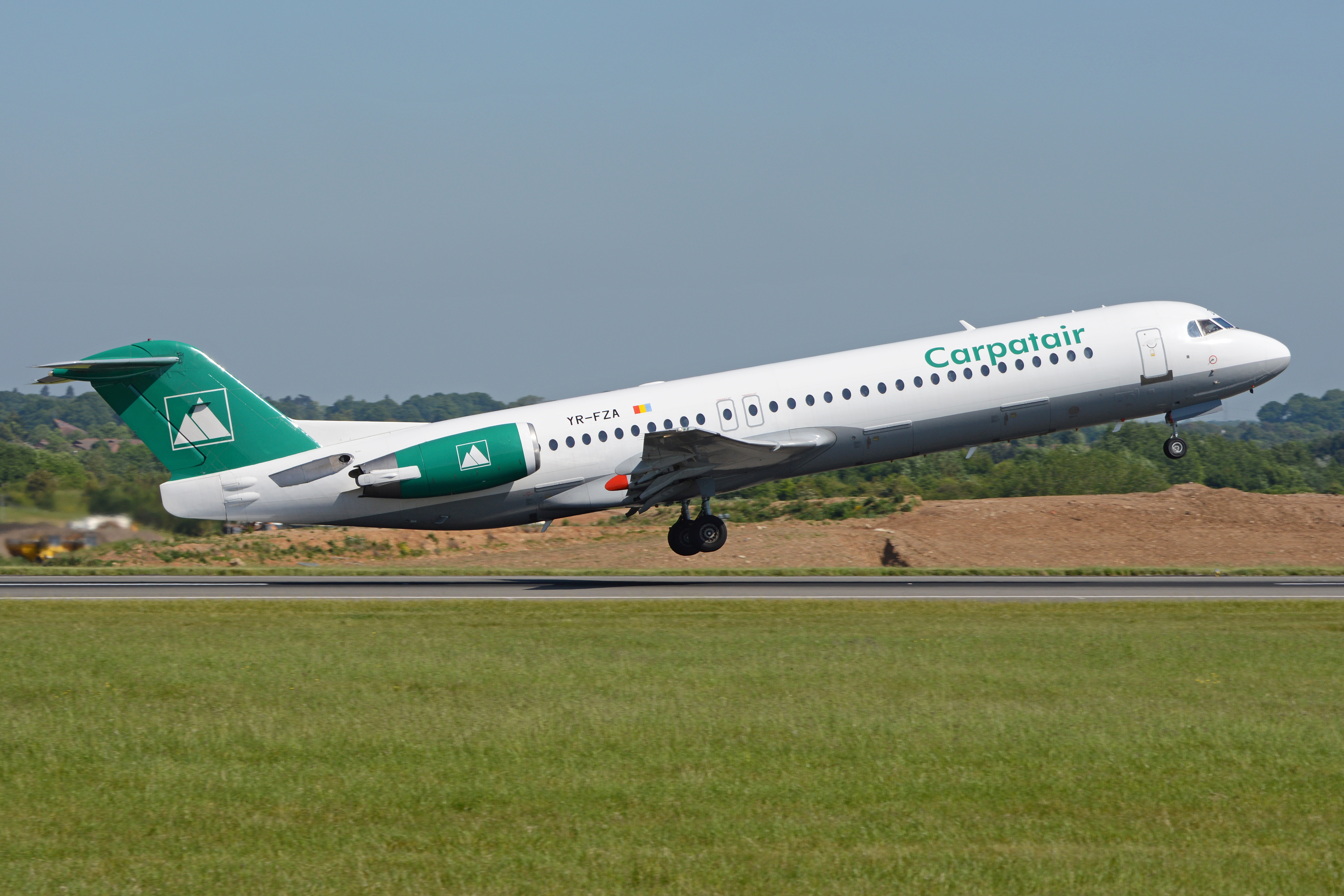 c/n 11395. Built 1992. Owned by the Romanian airline Carpatair but seen operating for Irish airline CityJet and departing on flight BCY9380 to Nice. London Luton Airport, UK. 26th May 2017